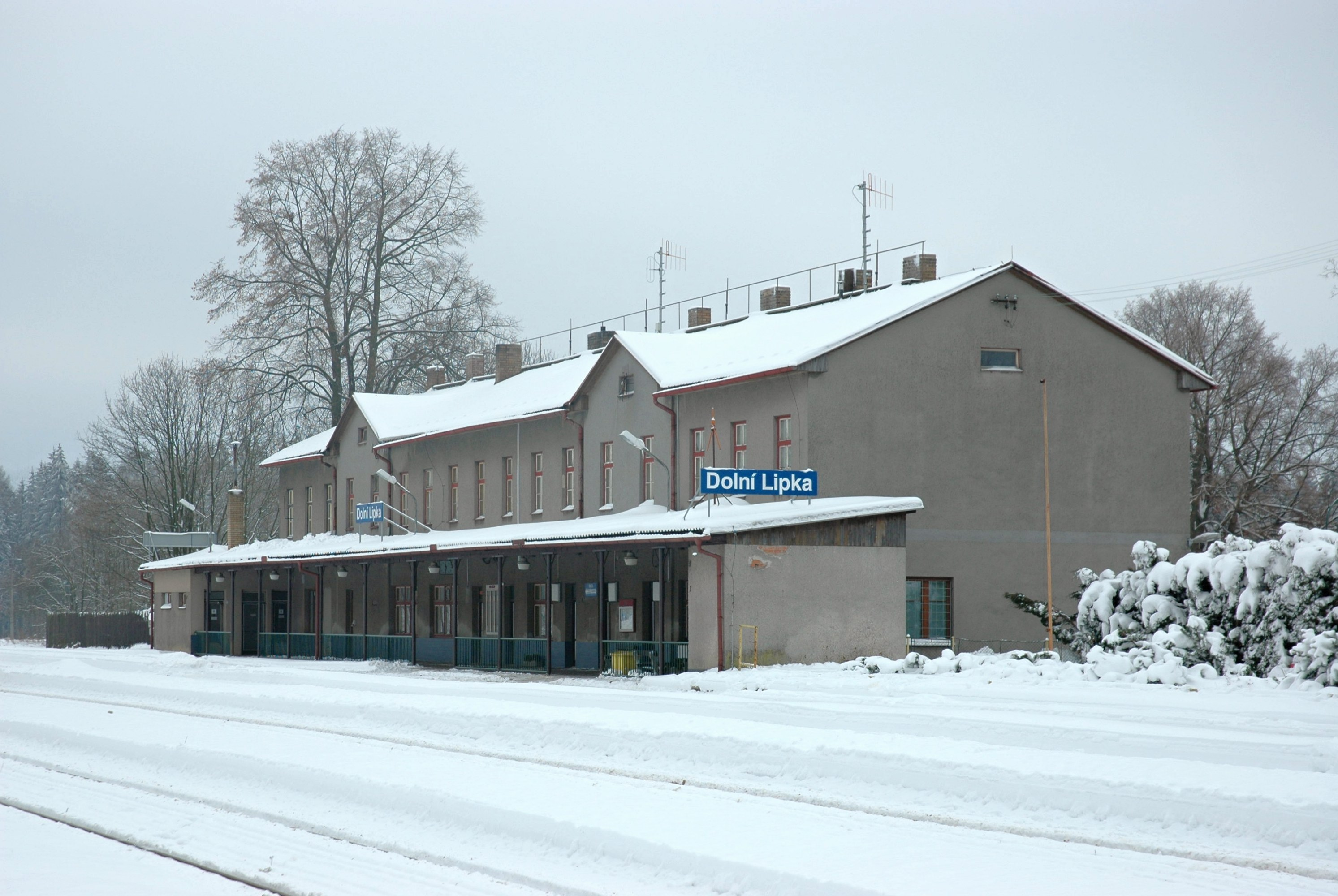 Dolní Lipka railway station, the Czech Republic